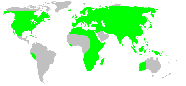 Liocranidae habitat distribution, drawn after Platnick: World Spider Catalog 7.0. This is not at all a precise rendering of the distribution! If you have better information, please replace this map, or send me the info, and i will redraw it.